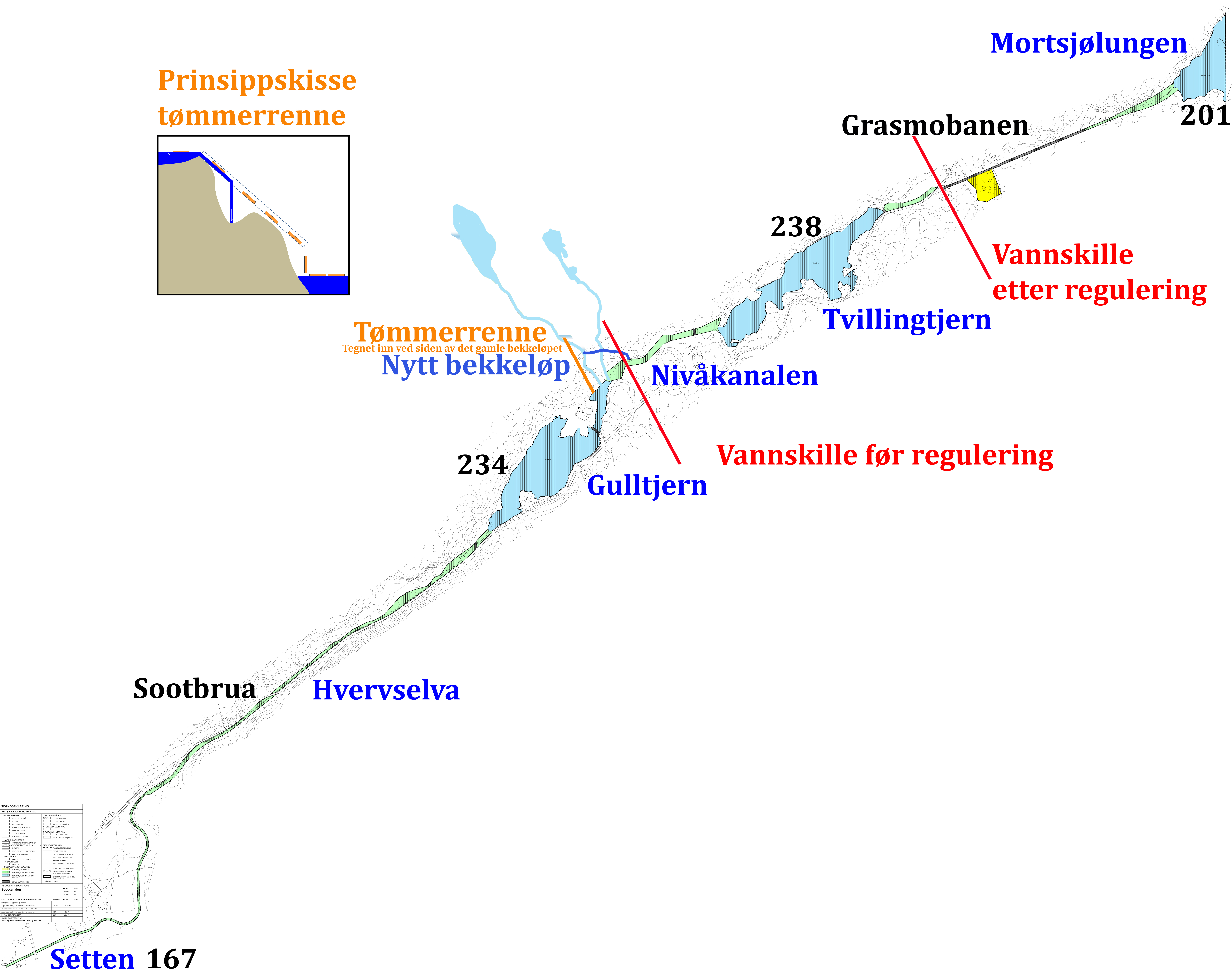 Watershed divide in the Soot canal Norway